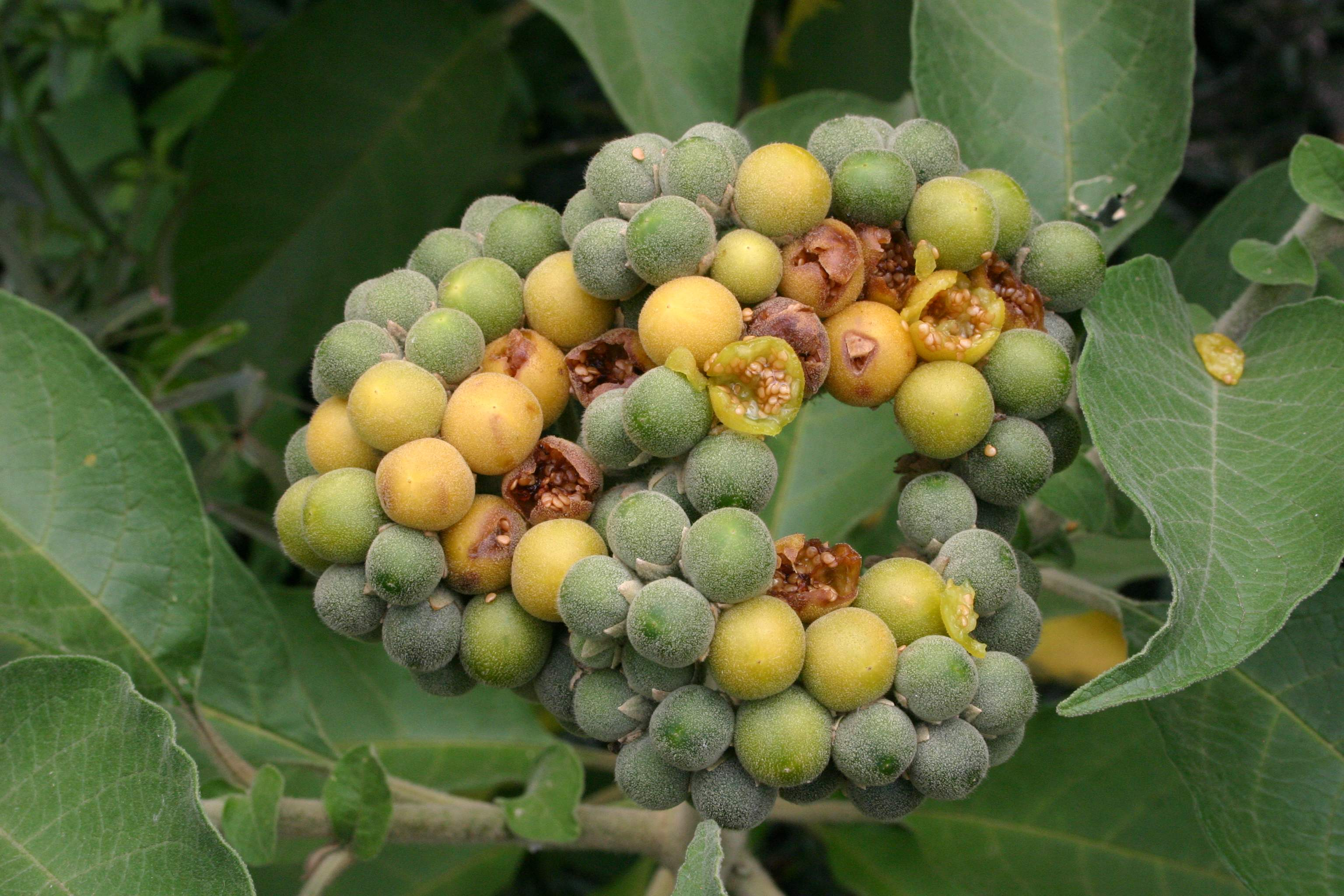 Solanum mauritianum fruit - Honeydew, Johannesburg